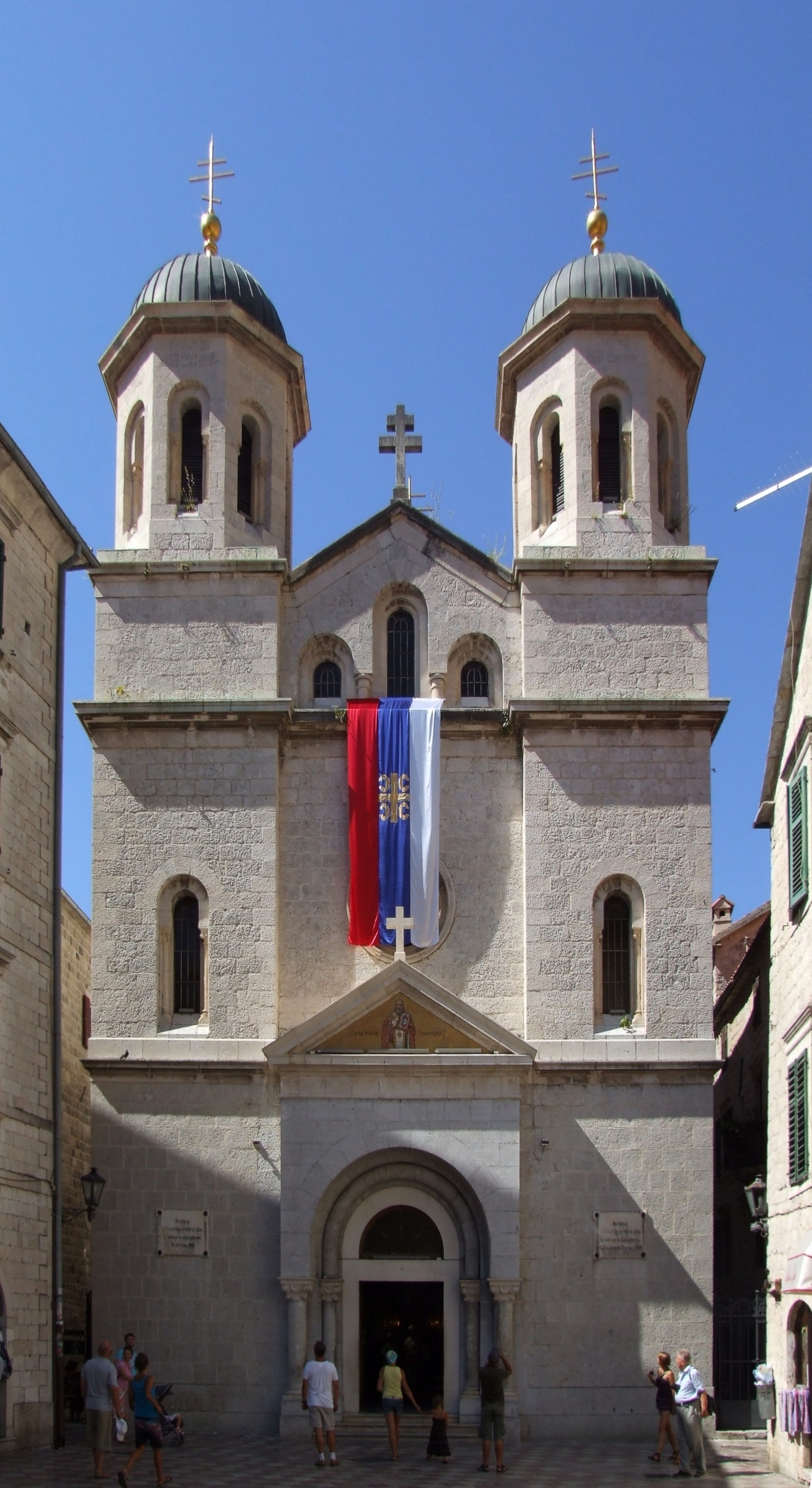 Serbian Orthodox Church of St. Nicholas in Kotor Srpskohrvatski / српскохрватски: Crkva Svetog Mihovila, Kotor